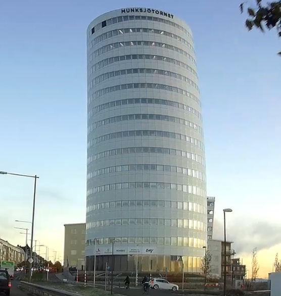 Munksjötornet in Jönköping